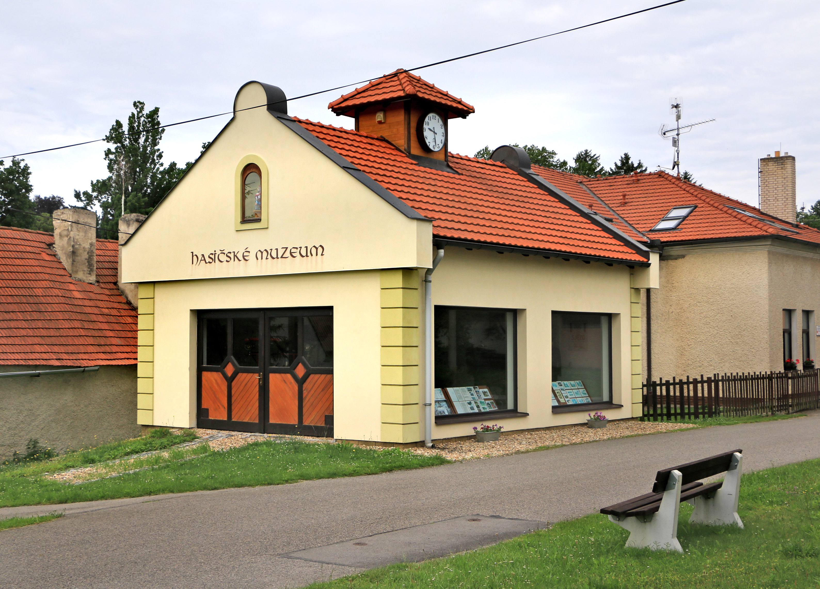 Fire museum in Odlochovice, part of Jankov, Czech Republic.